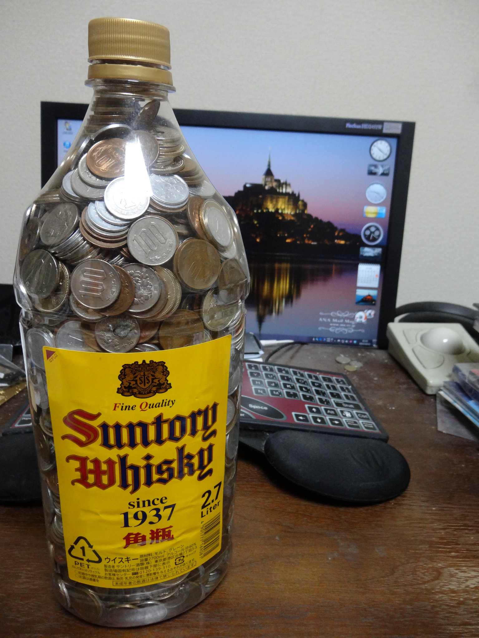 2013-10-12 at home. ￥191, ！